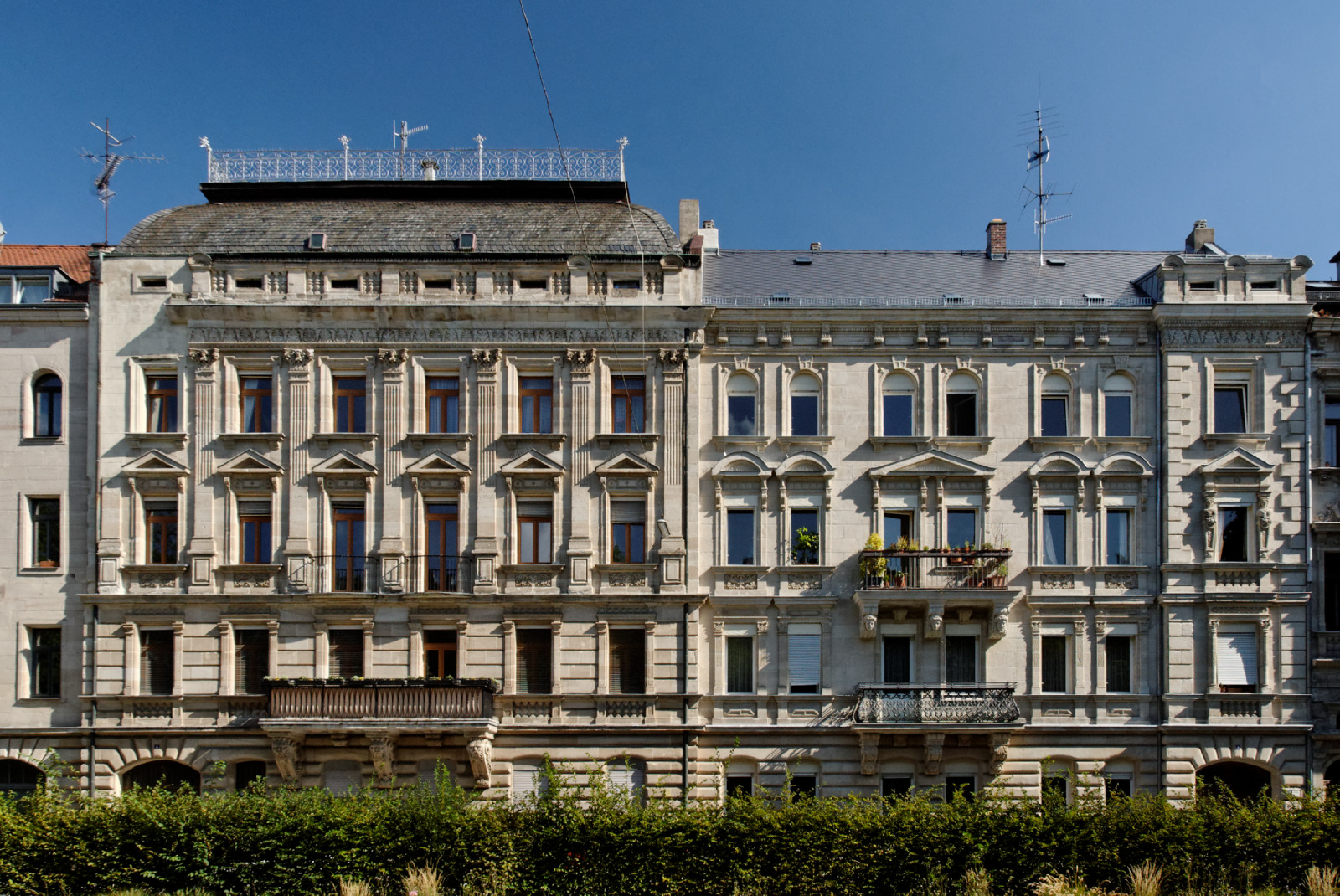 Houses Hornschuchpromenade 1 and 2 in Fürth, Germany